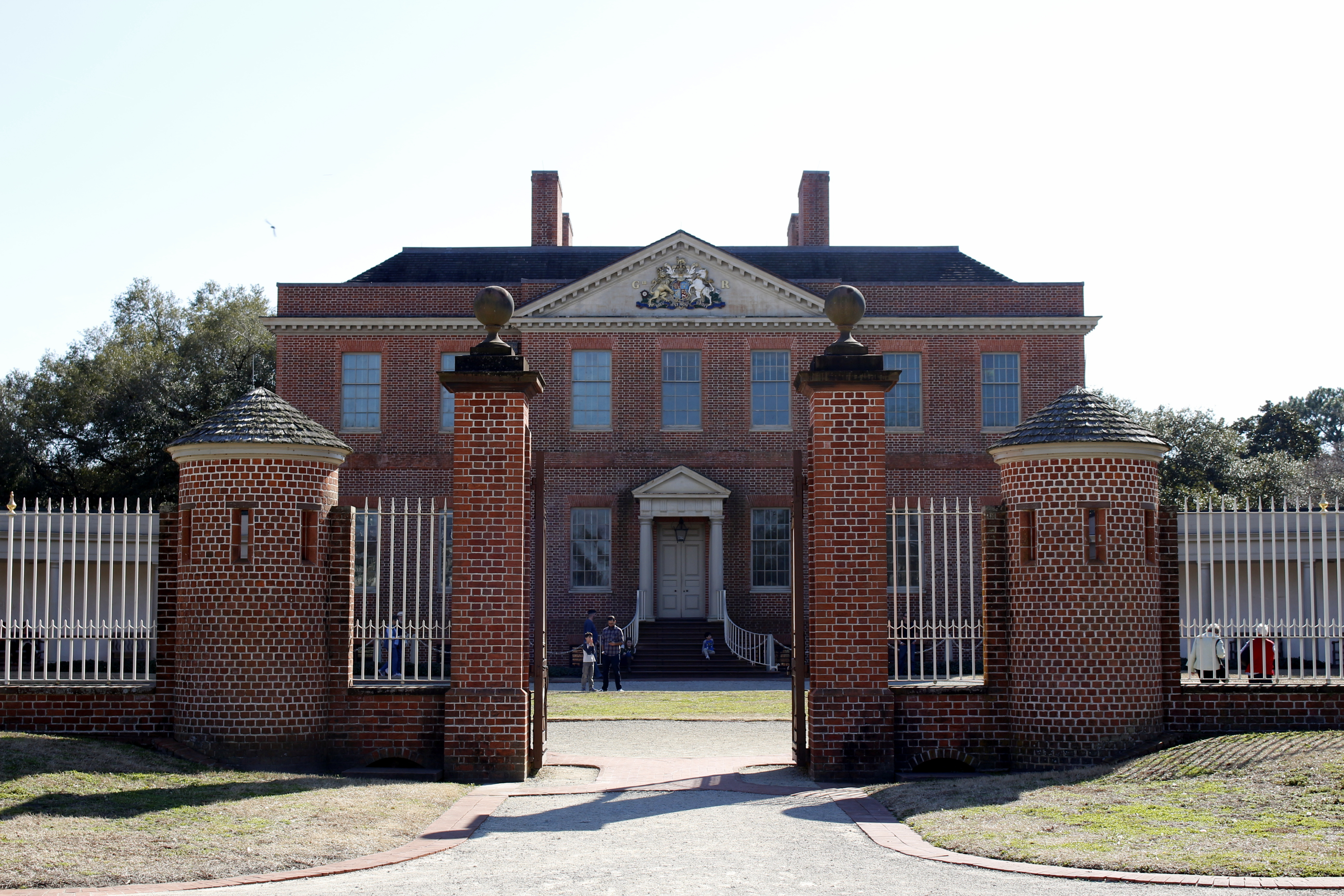 Restored Tryon Palace New Bern, North Carolina. It is part of Tryon Palace State Historical Park, an open air history museum.